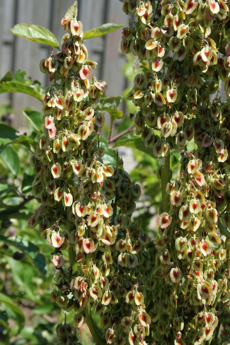 The infructescence of a Rhubarb. Four sequential photos: Image:Rhubarb-flower-1.jpg Image:Rhubarb-flower-2.jpg Image:Rhubarb-flower-3.jpg Image:Rhubarb-flower-4.jpg (this one) Photo of june 2006.